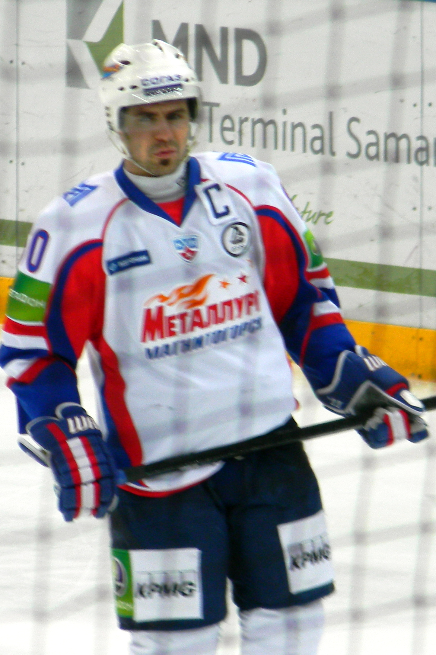 Tomáš Rolinek, an ice-hockey player from Metallurg Magnitogorsk